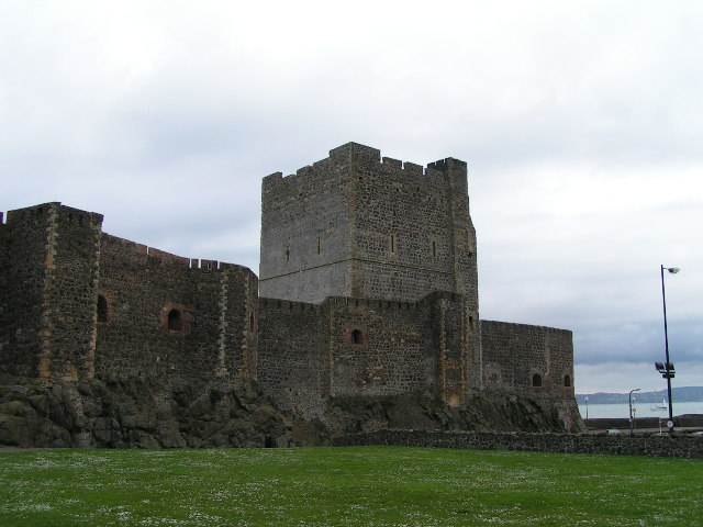 Carrickfergus Castle